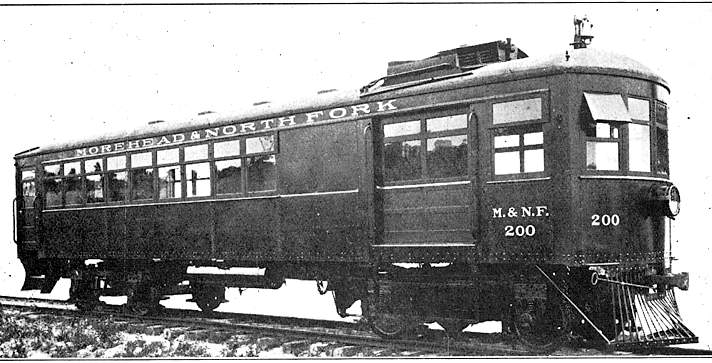 An Original Model 20 built by Edwards Railway Motor Car Company